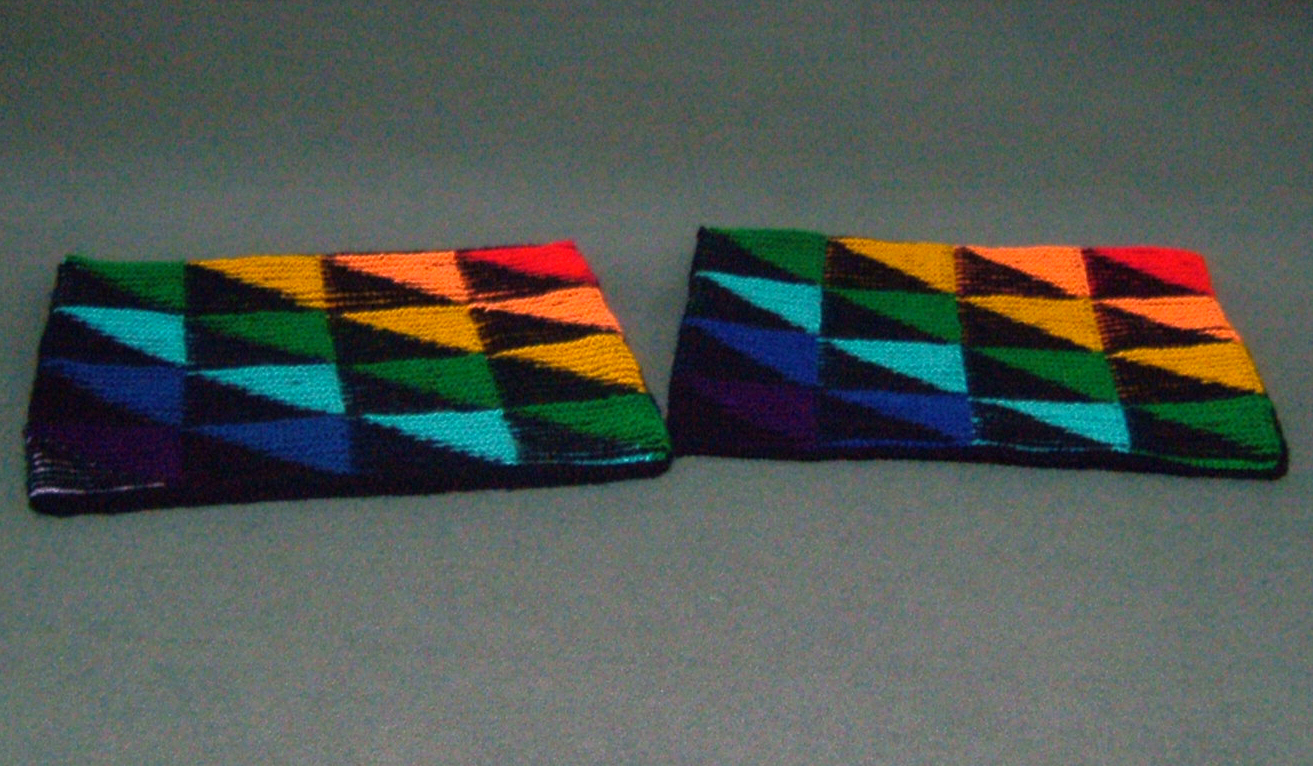 Two identical-looking illusion cushions. Created and knitted by Pat Ashforth in 2010